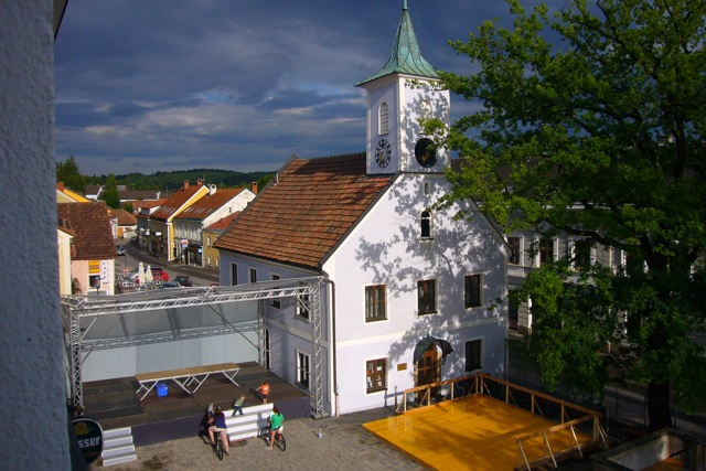 Former prison in Groß-Gerungs/Lower Austria